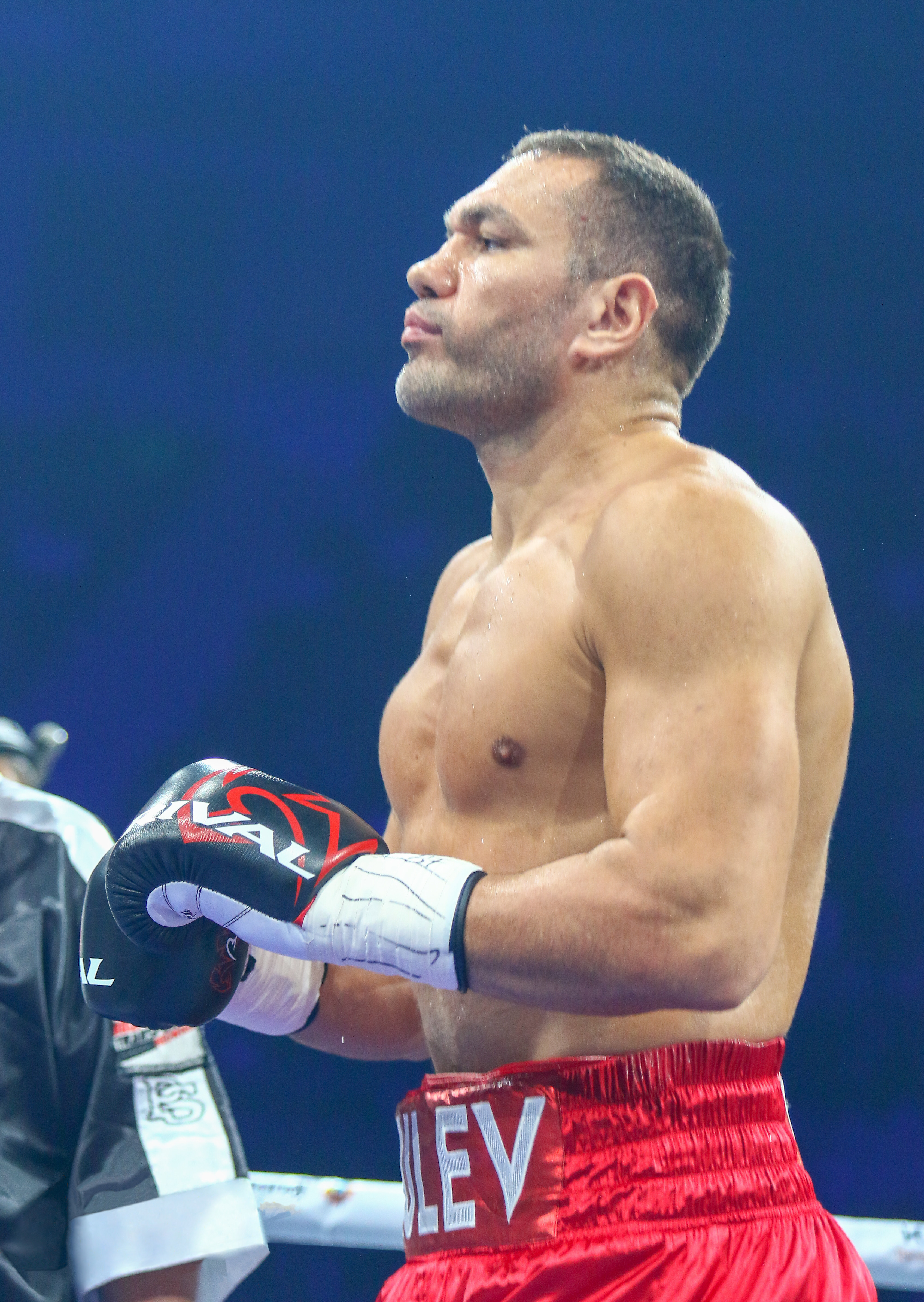 Kubrat Venkov Pulev (Bulgarian: Кубрат Венков Пулев; born 4 May 1981) is a Bulgarian professional boxer. He held the European heavyweight title twice between 2012 and 2016, and has challenged once for the unified world heavyweight title in 2014. As an amateur he won multiple medals at international tournaments, including gold at the 2008 European Championships and bronze at the 2005 World Championships, all in the super-heavyweight division.